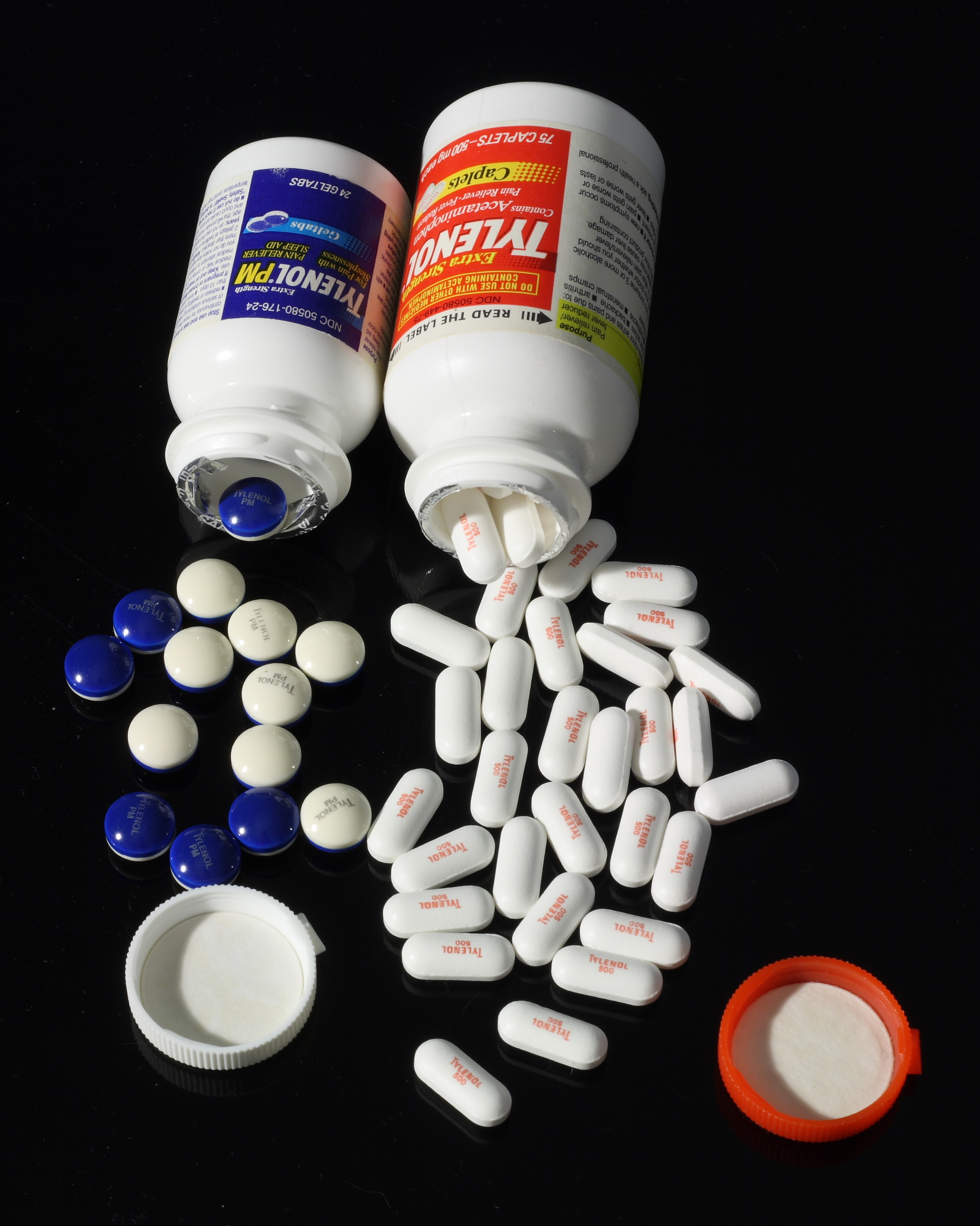 Open bottles of Extra Strength Tylenol and Extra Strength Tylenol PM, pain relievers with the active ingredient acetaminophen/paracetamol. Tylenol PM (the white-and-blue tablets) also contains diphenhydramine, a sleep aid. These drugs were made by McNeil-PPC, Inc. The expiration date for the Tylenol is April 2007; the expiration date for the Tylenol PM is April 2005.